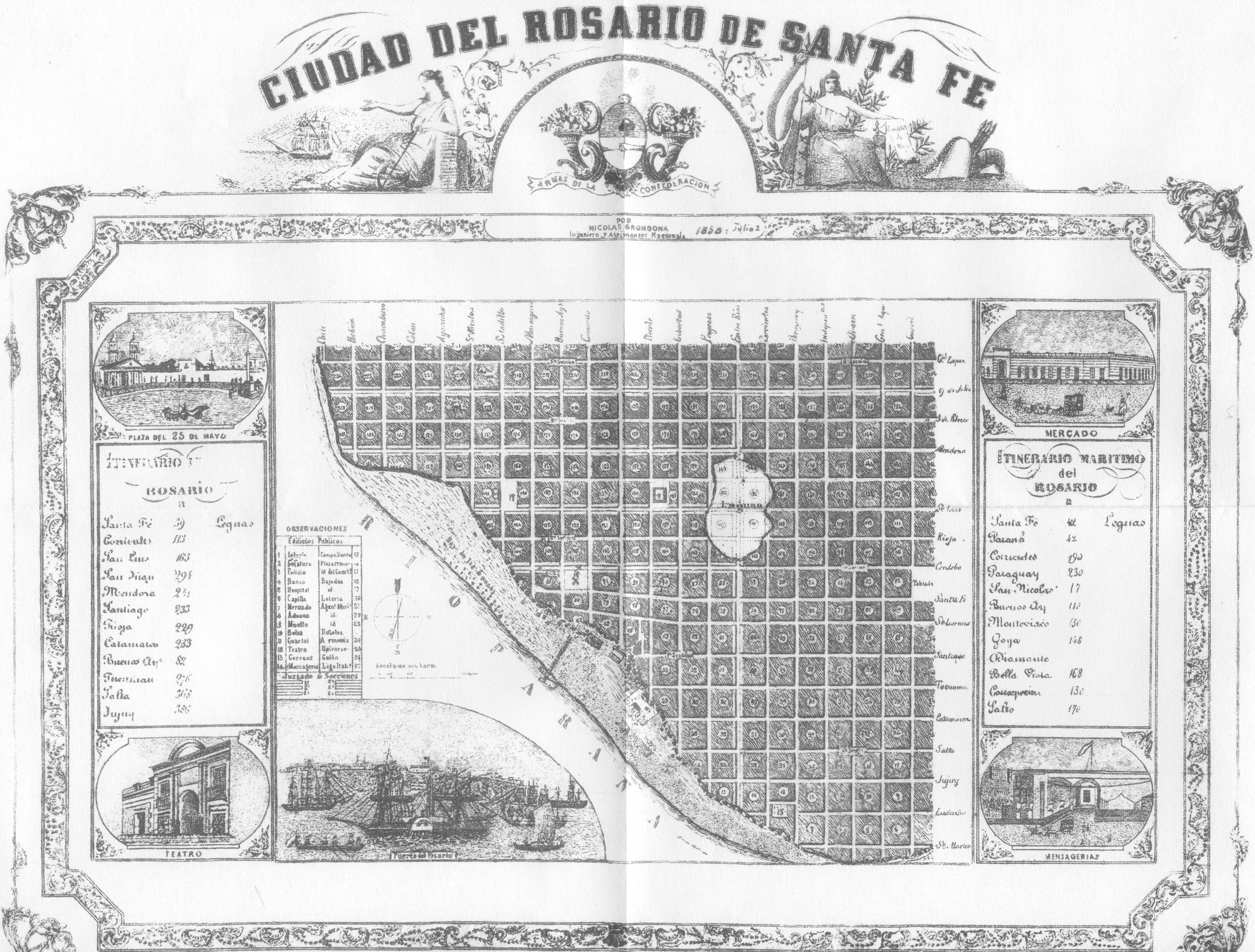 Map of the city of Rosario, province of Santa Fe, Argentina. First appeared in the publication Anales de la ciudad de Rosario de Santa Fe by Eudoro and Gabriel Carrasco (Peuser, Buenos Aires, 1897). Facsimile re-edited as part of Nueva Historia de Santa Fe, vol. 5, De la autonomía a la integración - Santa Fe entre 1820 y 1853, by Griselda B. Tarragó (edited by La Capital and Prohistoria Ediciones, Rosario, 2006).